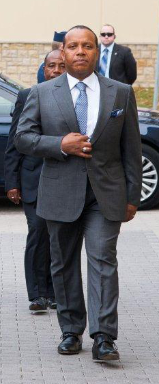 Stuttgart, Germany - Sao Tome and Principe Prime Minister Patrice Emery Trovoada, right, and General Carter F. Ham, commander of U.S. Africa Command, walk through the honor guard cordon marking the prime minister's arrival at command headquarters at Kelley Barracks on Monday, September 24, 2012. The prime minister, the first African head of government to visit AFRICOMs headquarters, spent the day engaging with senior leaders on mutual security cooperation issues.